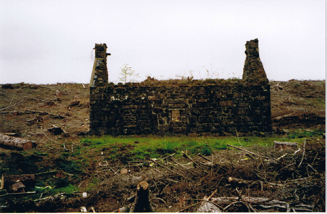 Ardmore. A ruined house exposed after tree felling. Overlooks Bloody Bay